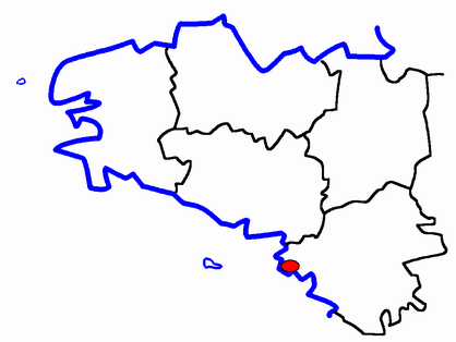 Description: Map for localisazion of cantons of Pays-de-Loire, region in France Source: made by Hervé Tigier in april 2005 from another large map (published in 1990)